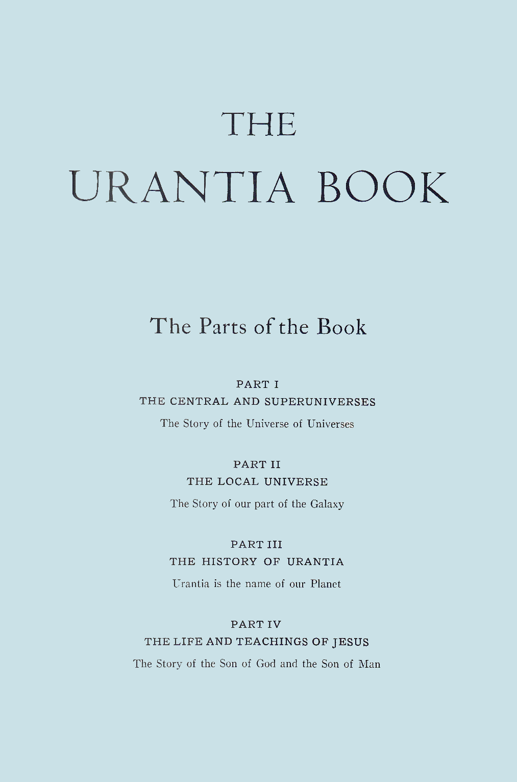 Cover page of the 1st edition of The Urantia Book (1955)